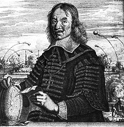 Christoph Bernhard von Galen